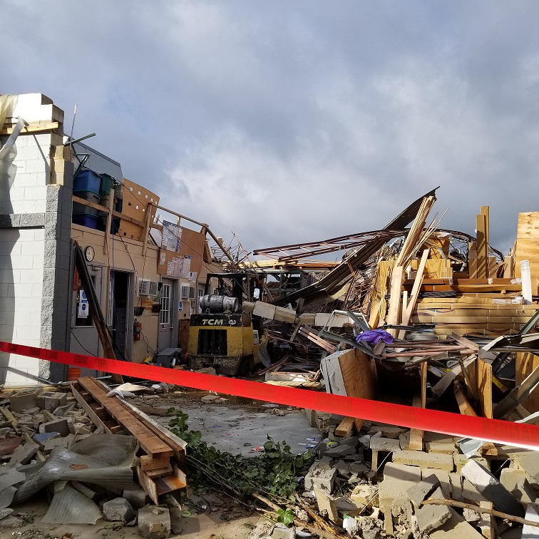 Destruction of the Old Dominion Flooring Warehouse near Midlothian, Virginia, caused by a tornado spawned by Hurricane Florence on September 17, 2018